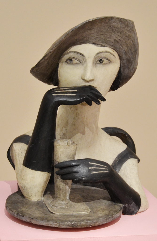 Bedřich Stefan, Girl with absinth (1924), polychrome burnt clay, National Gallery, Prague